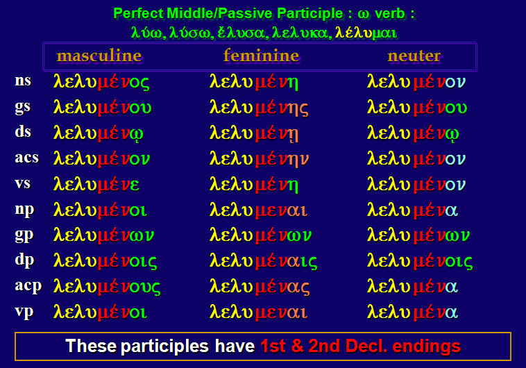 Ancient Greek: Perfect Middle-Passive Participle of 'luo'